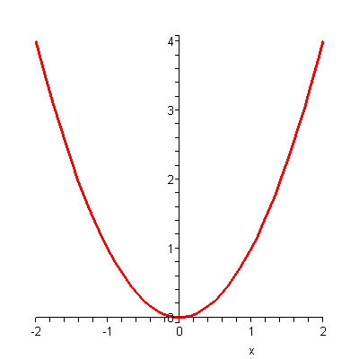 Chart of a parabola.